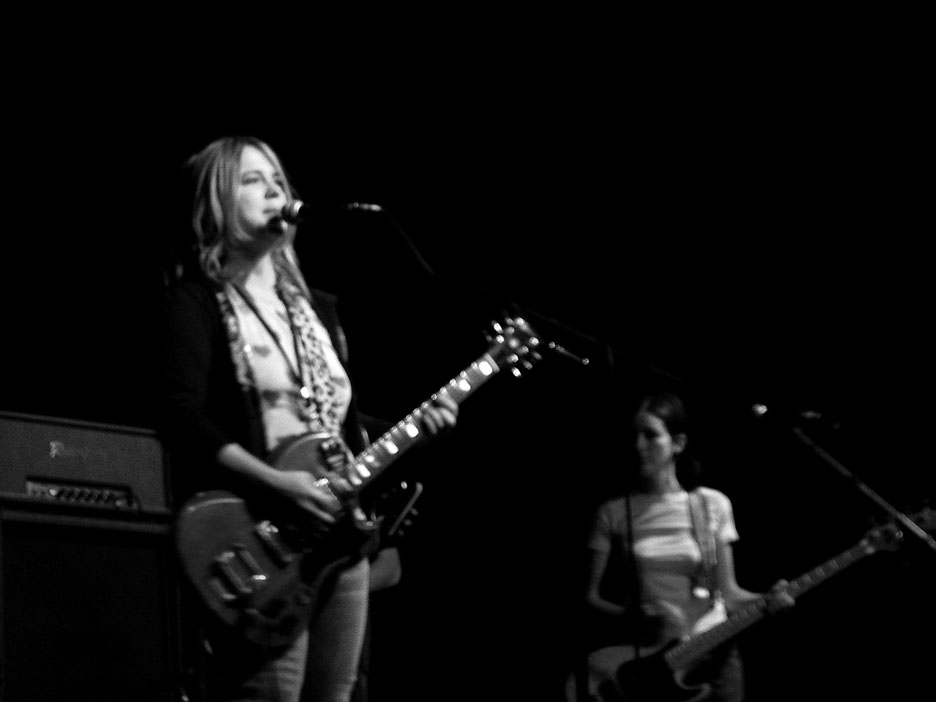 Veruca Salt; Louise Post, left, and Nicole Fiorentino, right